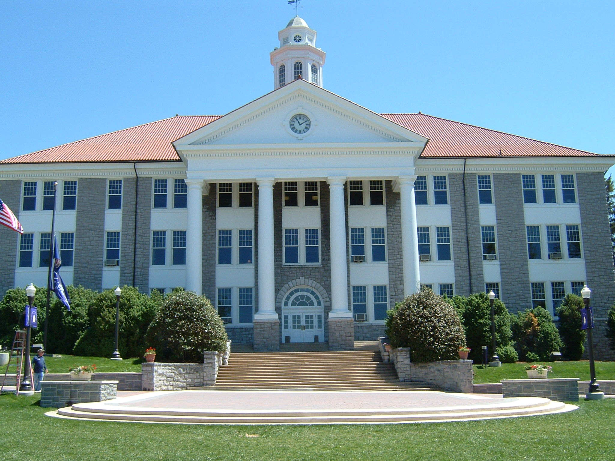 Wilson Hall